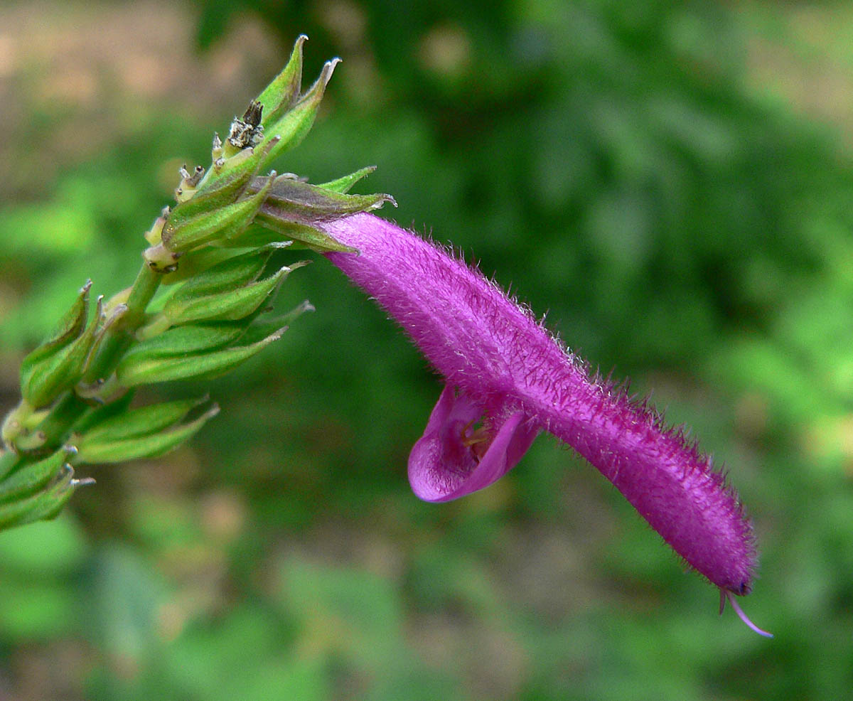 Photo of Salvia iodantha at the San Francisco Botanical Garden